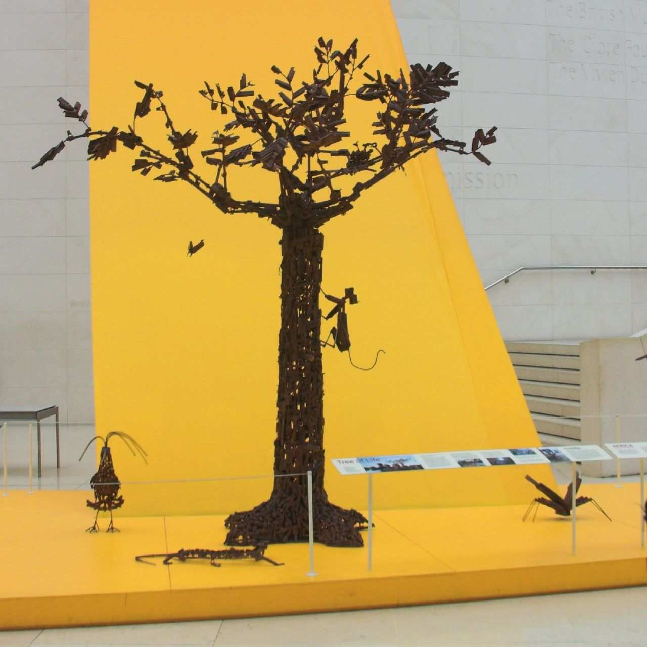 The Tree of Life was a project in Mozambique to collect military hardware and transform them into sculptures. see Throne of Weapons